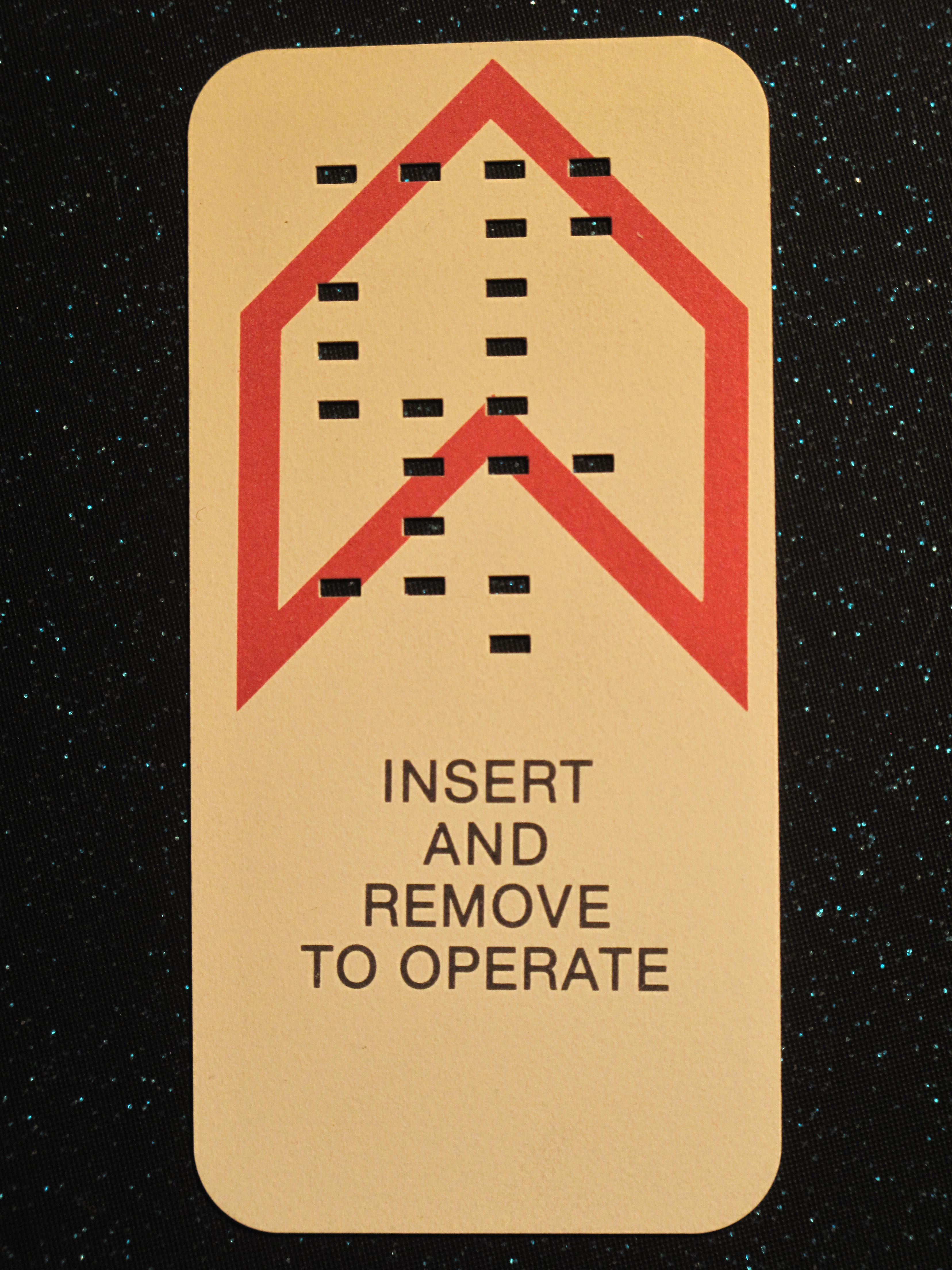 Plastic punch card for entering in his room of a hotel in place of a key. USA 1983